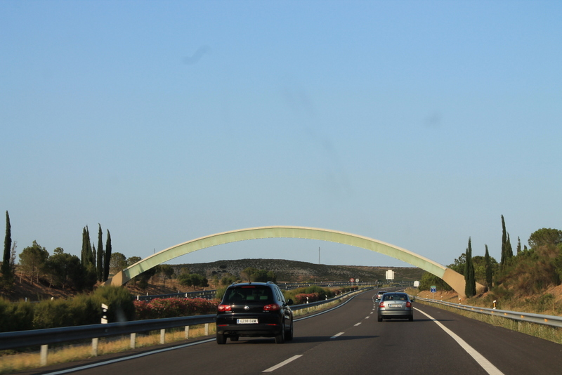 E 90 crosses the prime meridian between Zaragoza and Barcelona